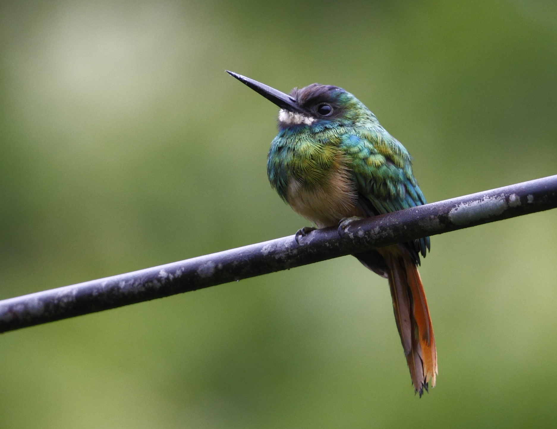 White-chinned Jacamar, Careiro da Várzea, Amazonas, Brazil